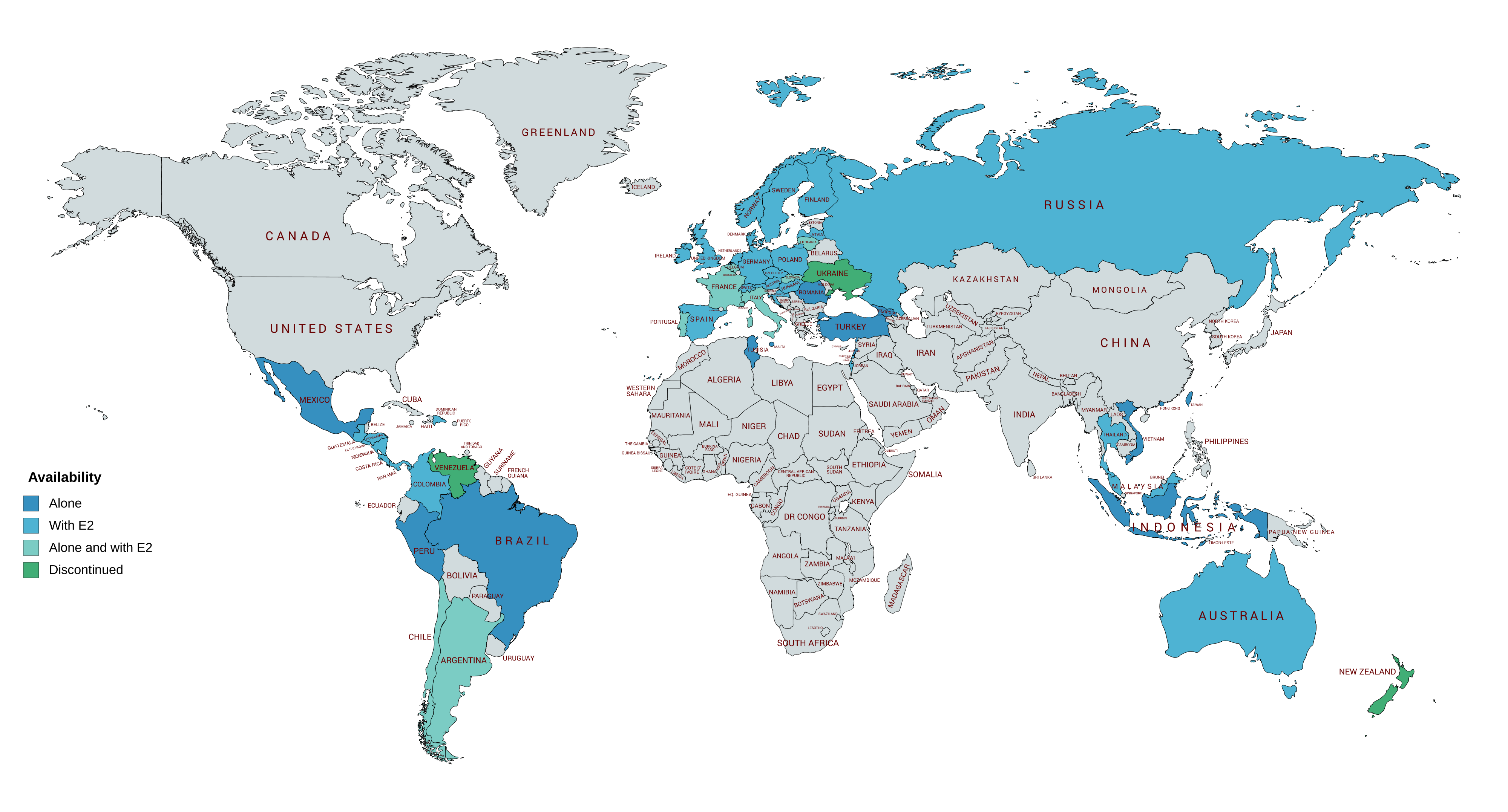 Current availability of nomegestrol acetate as of August 2018.